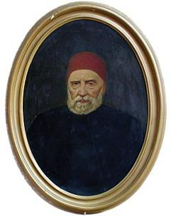 Stefan Bogoridi